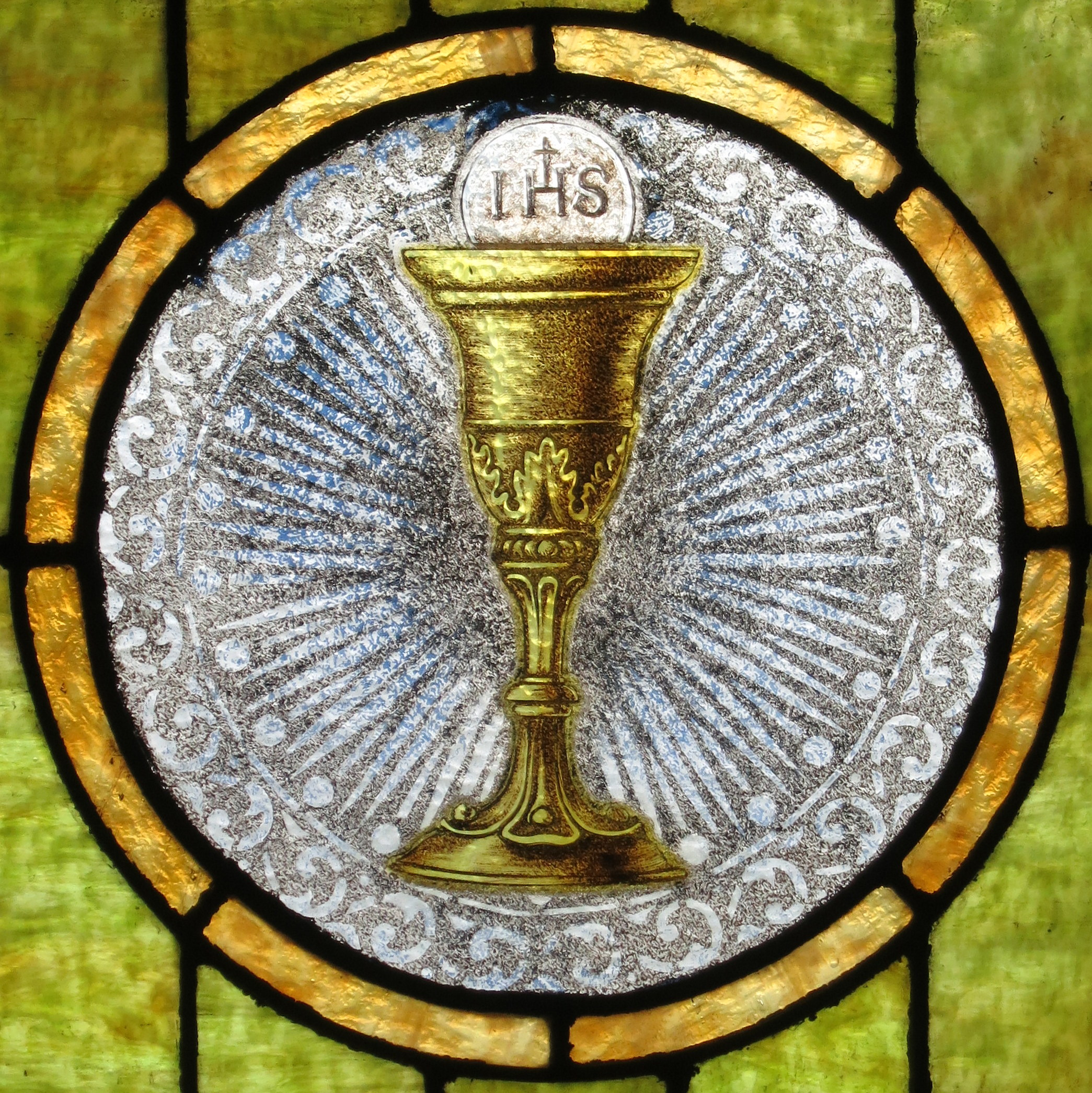 Saint John the Baptist Catholic Church (Dry Ridge, Ohio) - stained glass, Eucharist